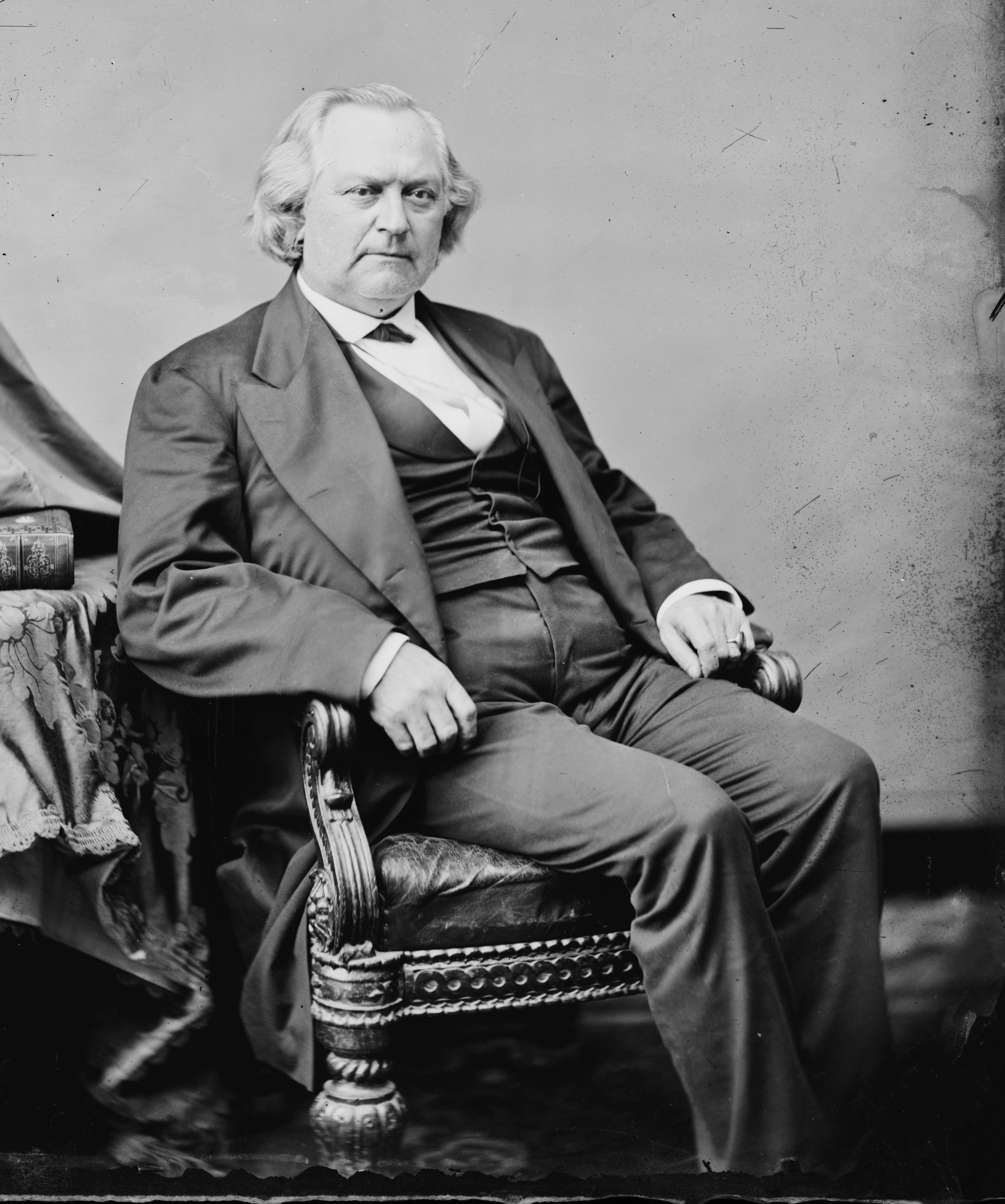 James W. Nye. Library of Congress description: "Hon. James Warren Nye of Nevada"